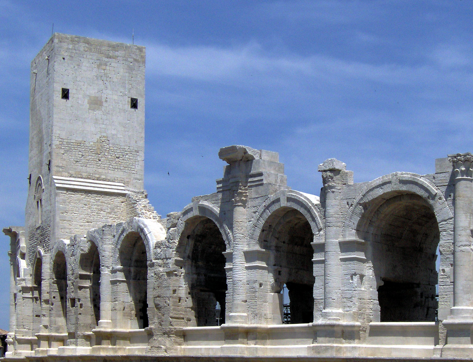 Arles Amphitheatre